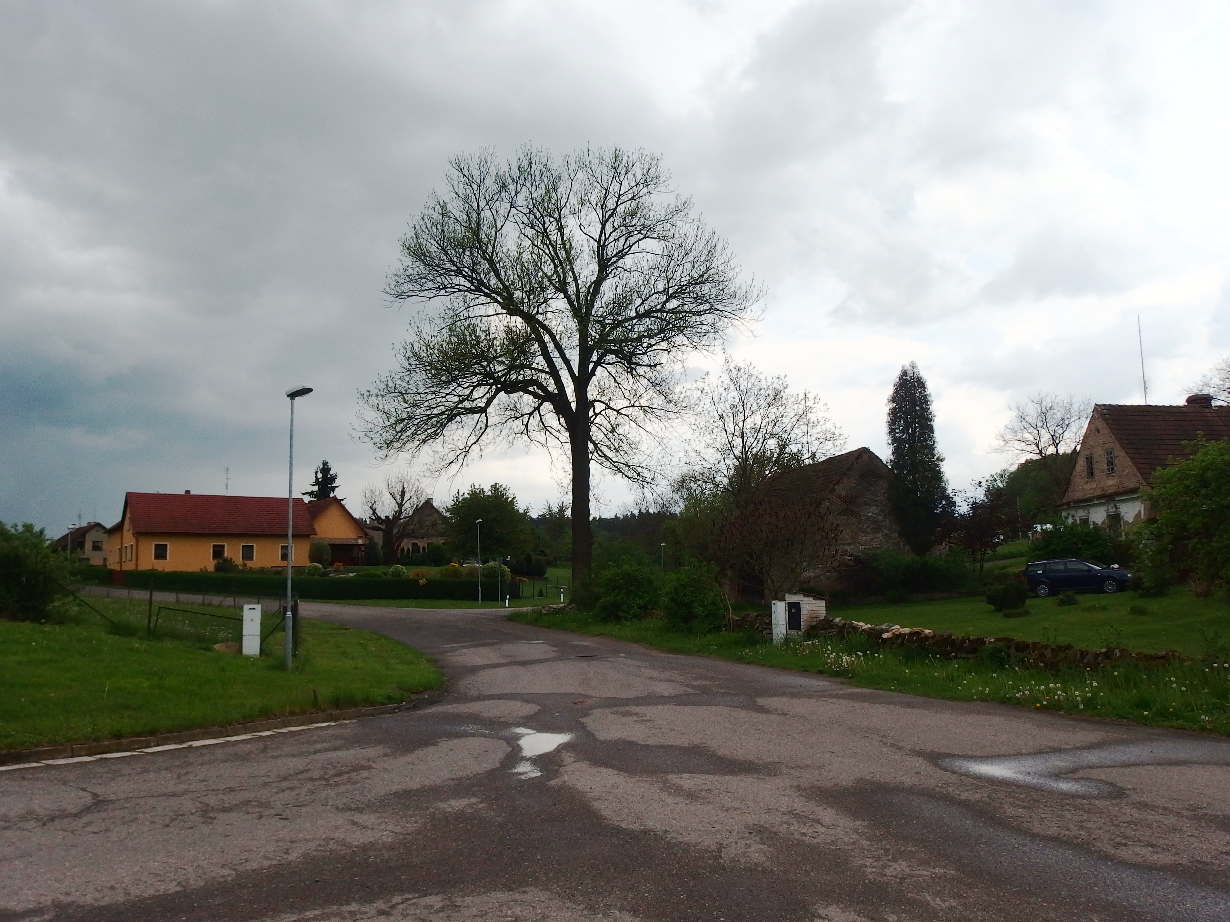 Svatý Jiří, Ústí nad Orlicí District, Czech Republic, part Loučky.